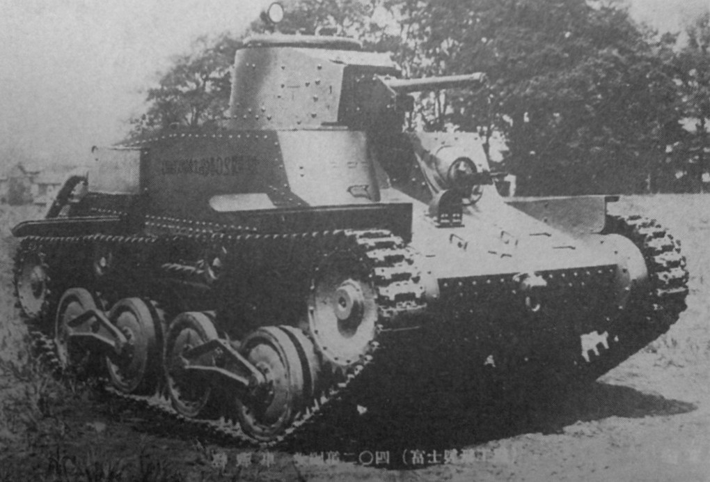 Imperial Japanese Army Type 95 light tank Ha-Go 1st Prototype, before the weight reduction modification